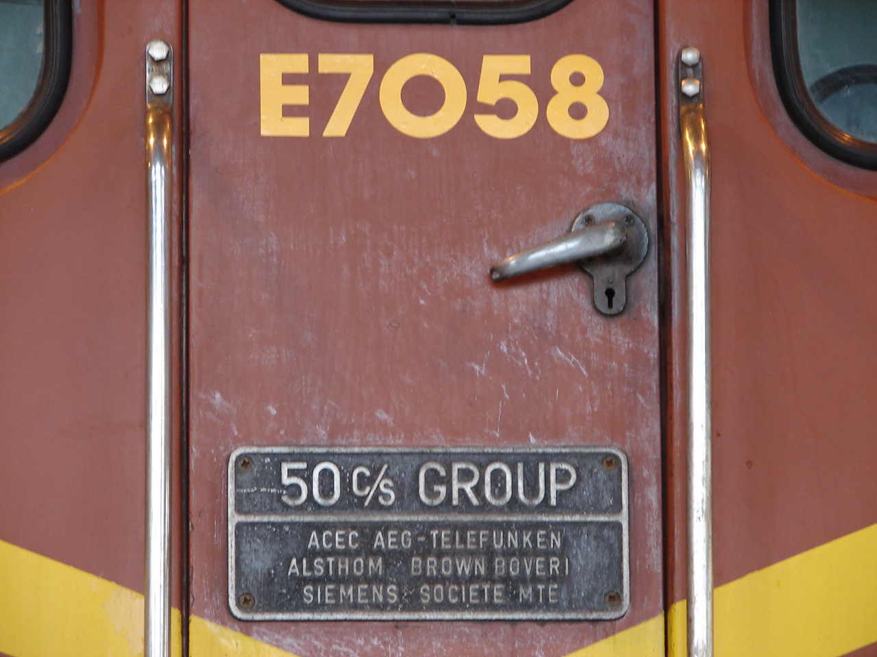 SAR Class 7E E7058 builders' plateLocation: Swartkops, Port Elizabeth, Eastern Cape